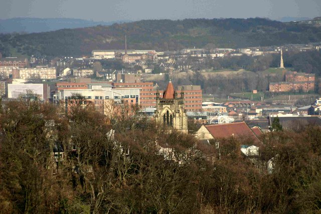 View over the city from Bingham Park. View looking to the East from Bingham park. The trees in foreground are in the park. The church steeple is in the next square (SK3385) at Hunter's Bar